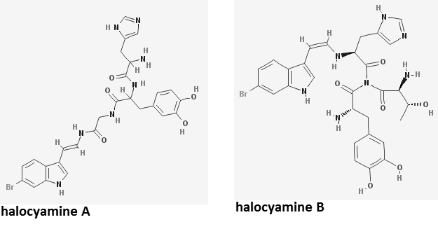 Halocyamine A&B